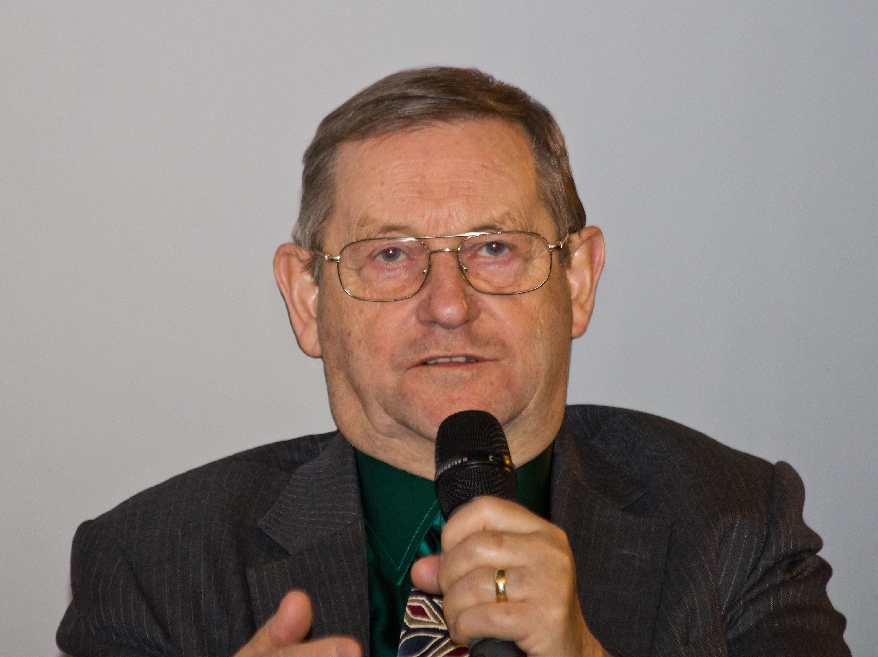 Norman Davies, a British historian